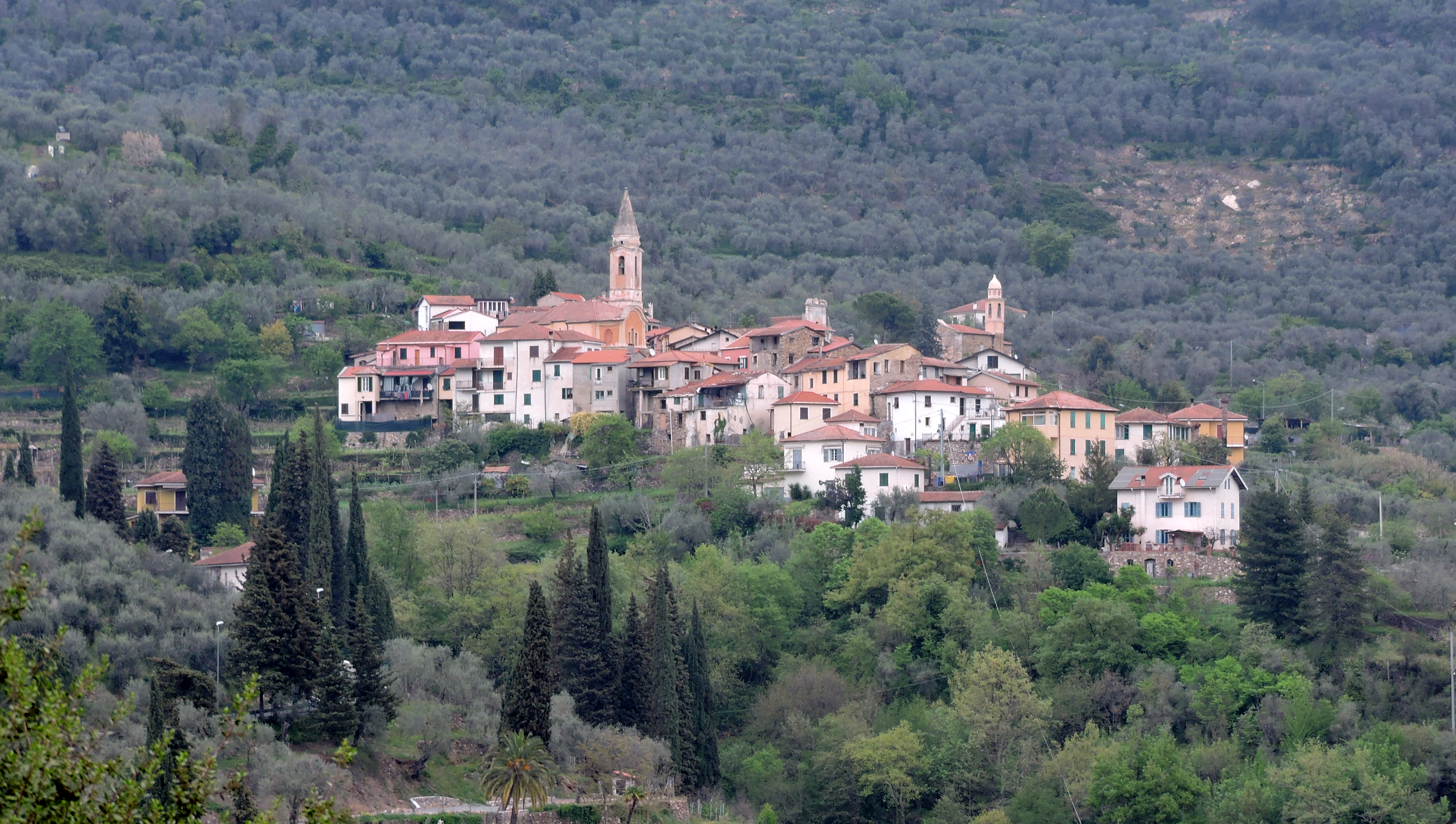 Candeasco from the foothpath starting from Borgomaro (IM, Italy)